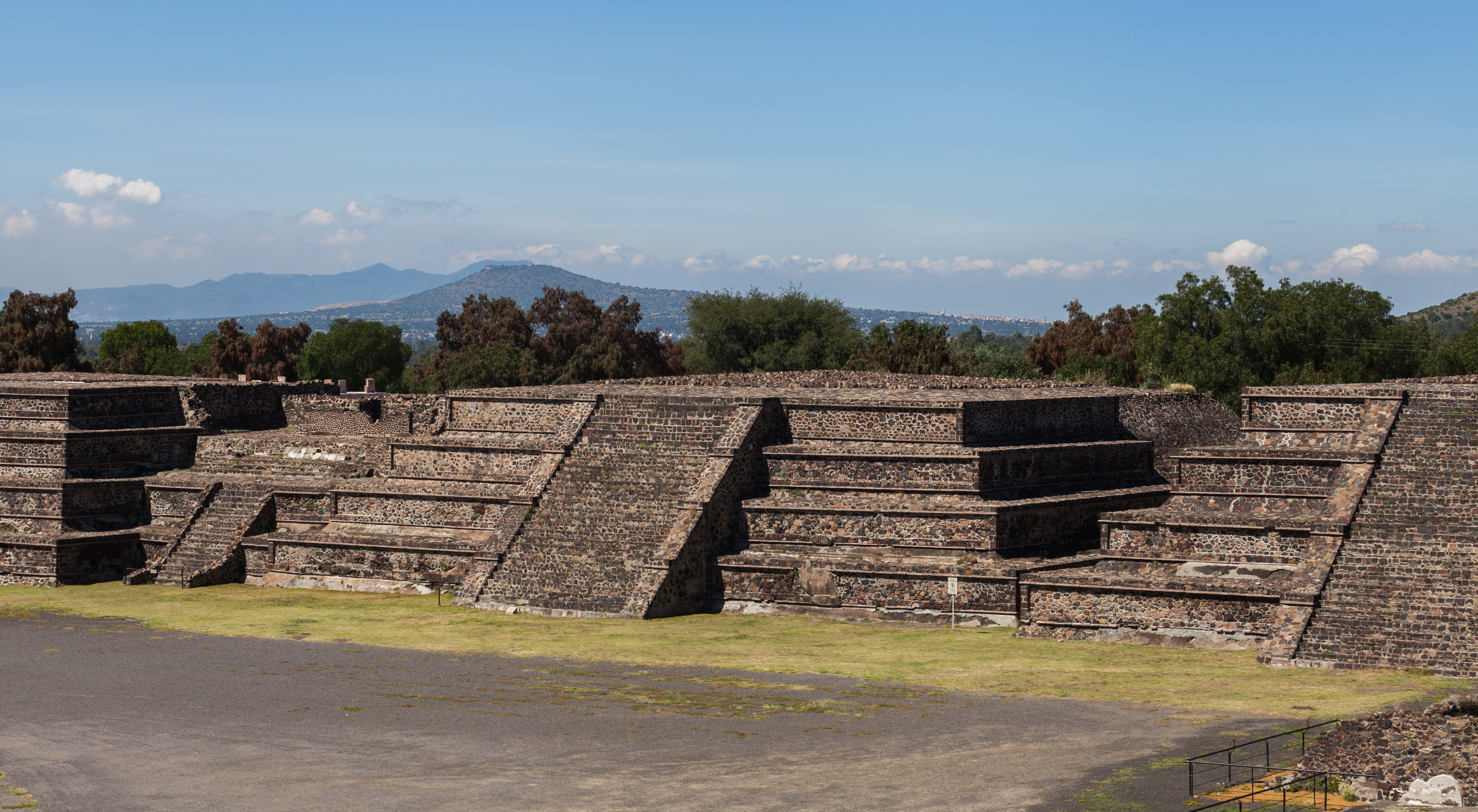 Teotihuacán, Mexico